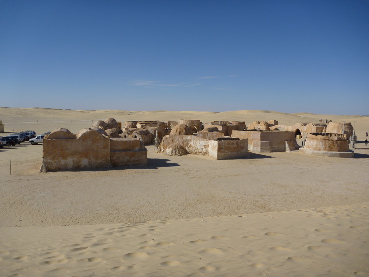 The film set for Mos Eisley not far from Tozeur.